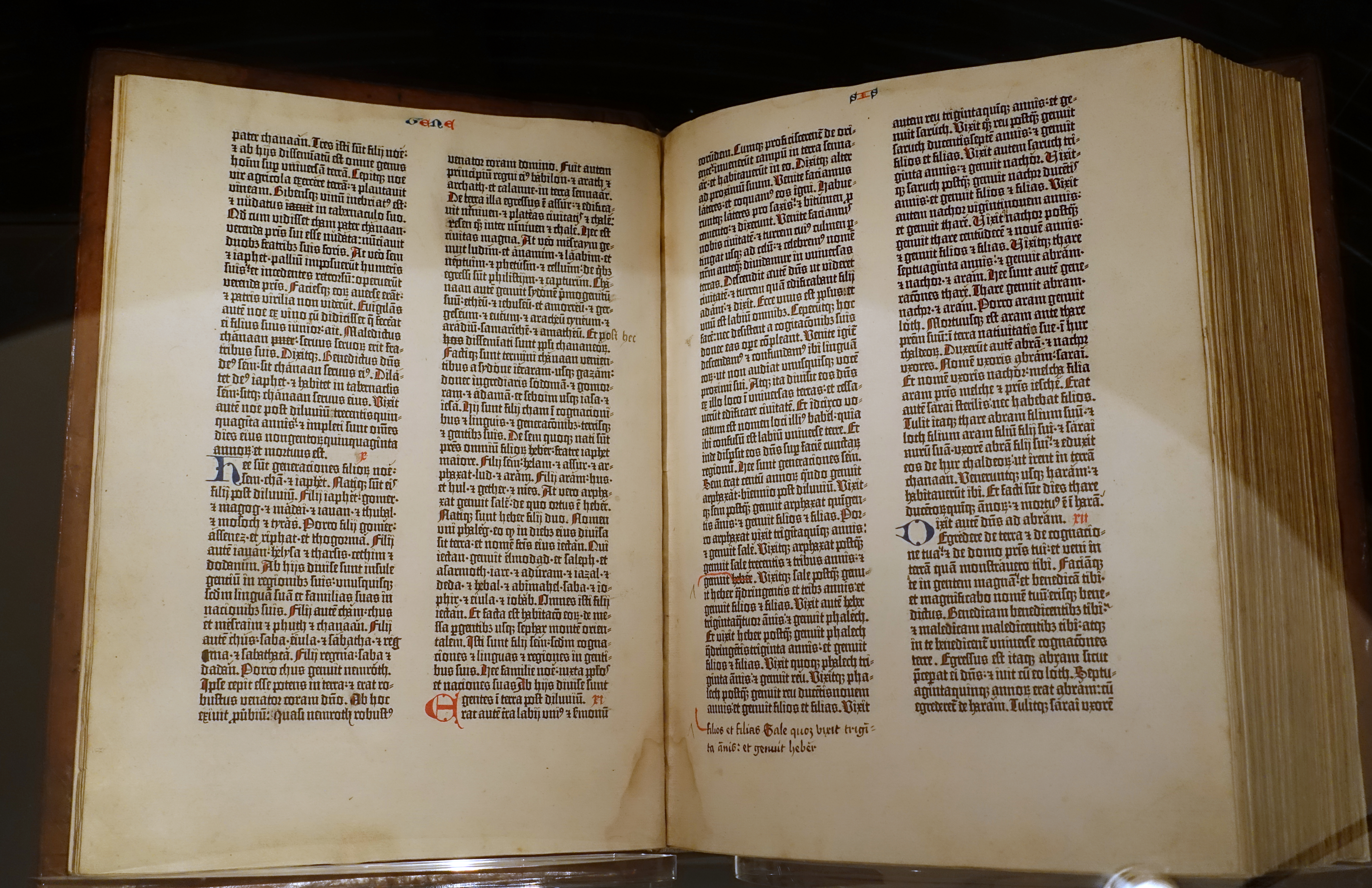 Exhibit in the Harry Ransom Center - University of Texas at Austin, Austin, Texas, USA. This work is old enough so that it is in the public domain.